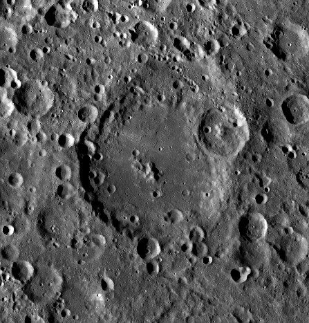 LRO-WAC; the pronounced crater with central peak on the east-northeastern part of Mach's rim is Harvey.